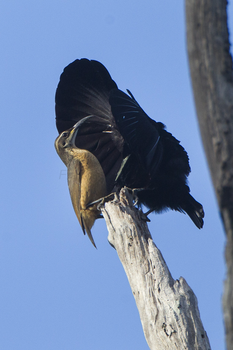 Victoria's Riflebird courtship - Lake Eacham - Queensland_S4E8809